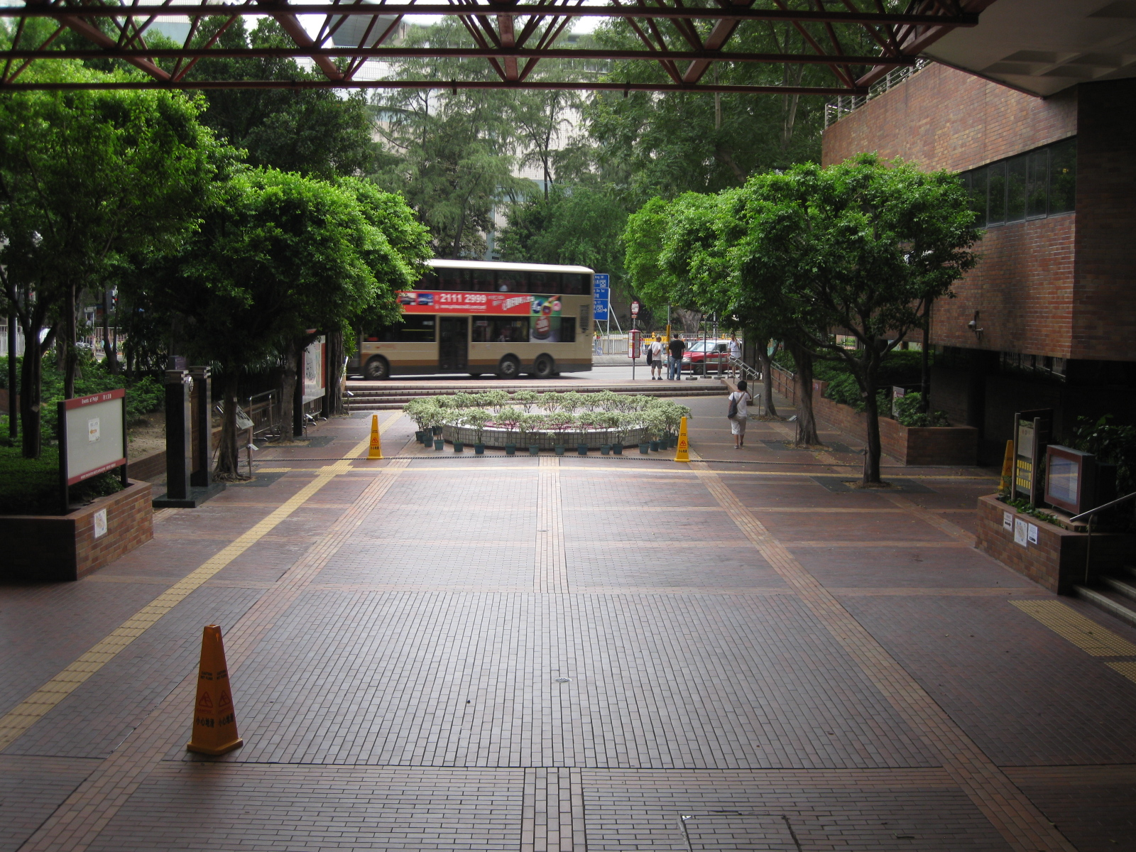 TSTKFA Suqare in HK PolyU